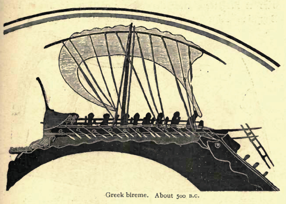 Greek bireme circa 500BC.